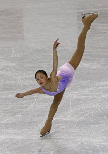 Caroline Zhang performs a spiral during her short program at the 2009 Four Continents Championships.